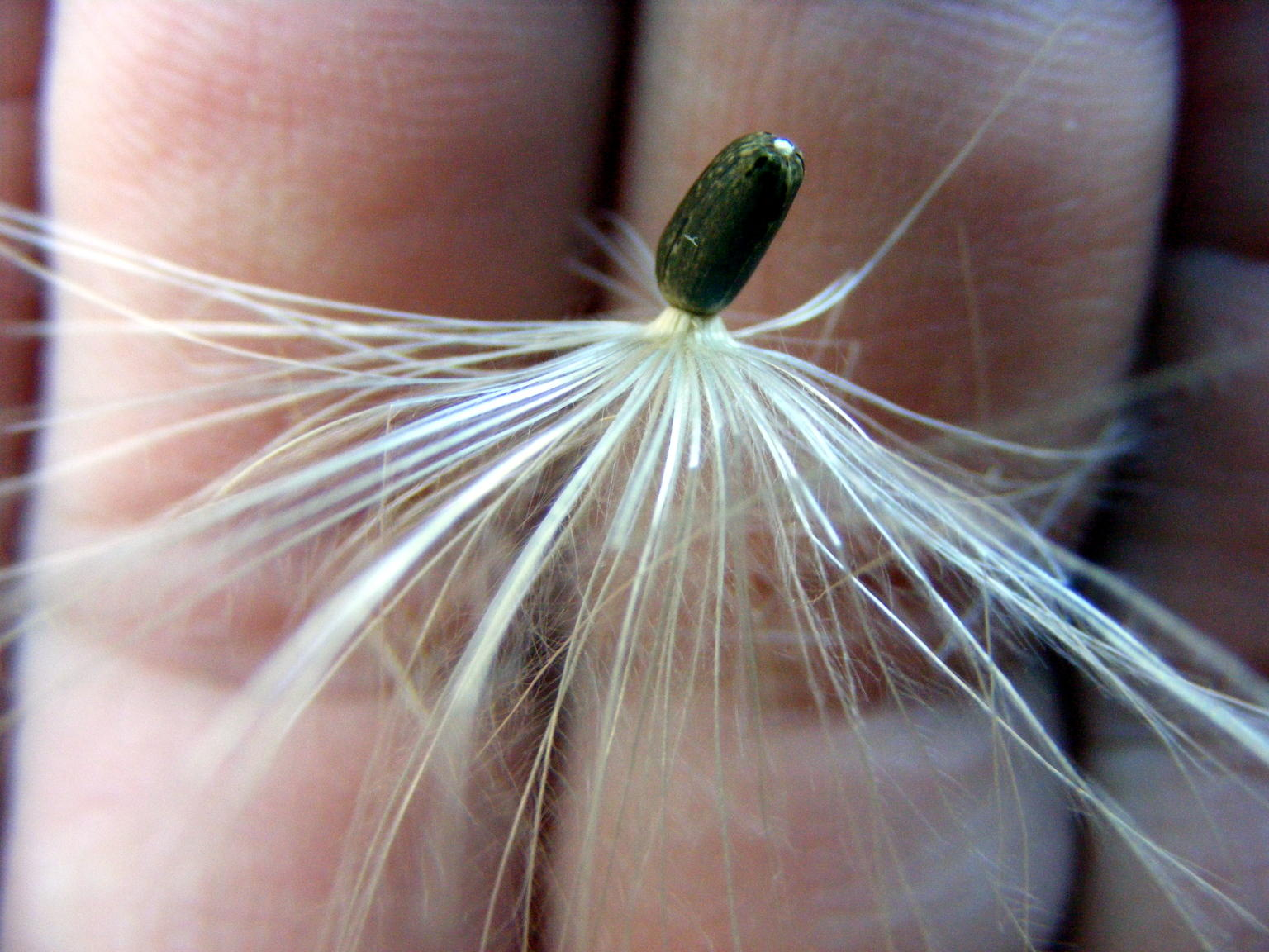 Seed with fingers to scale - Artichoke Thistle (Cynara cardunculus). Anstey Hill recreation park, Adelaide, South Australia